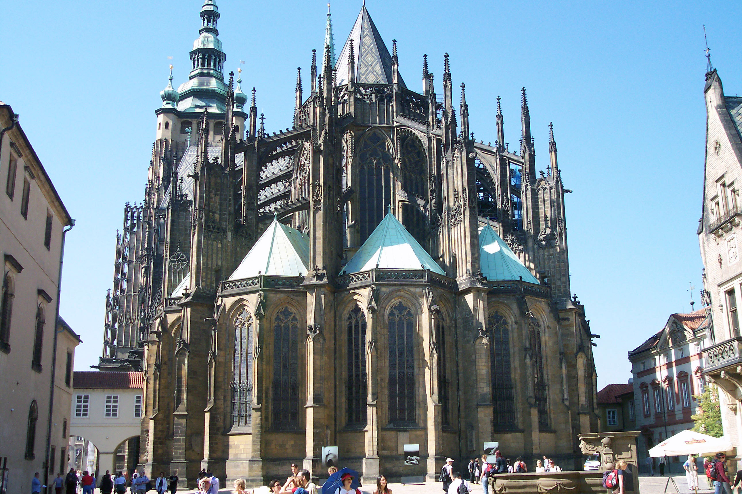 St. Vitus Cathedral in Prague, the Parler's east chancel